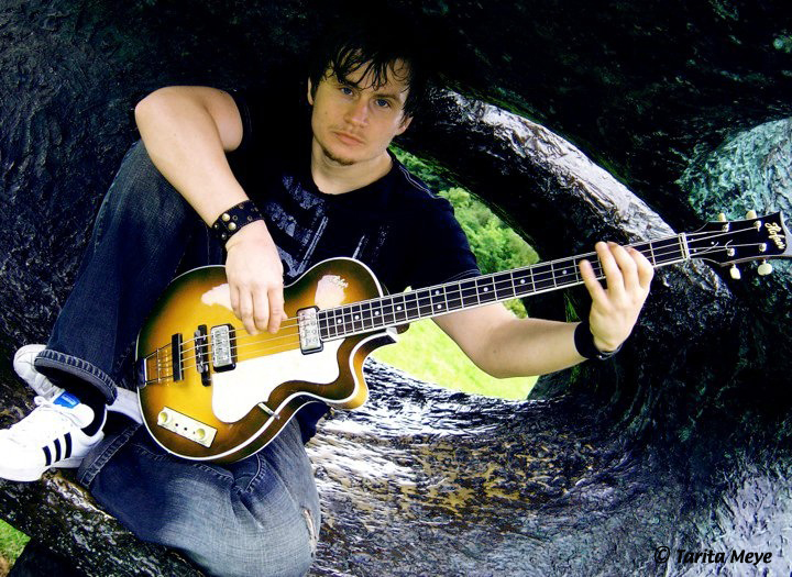 Philipp Rehm